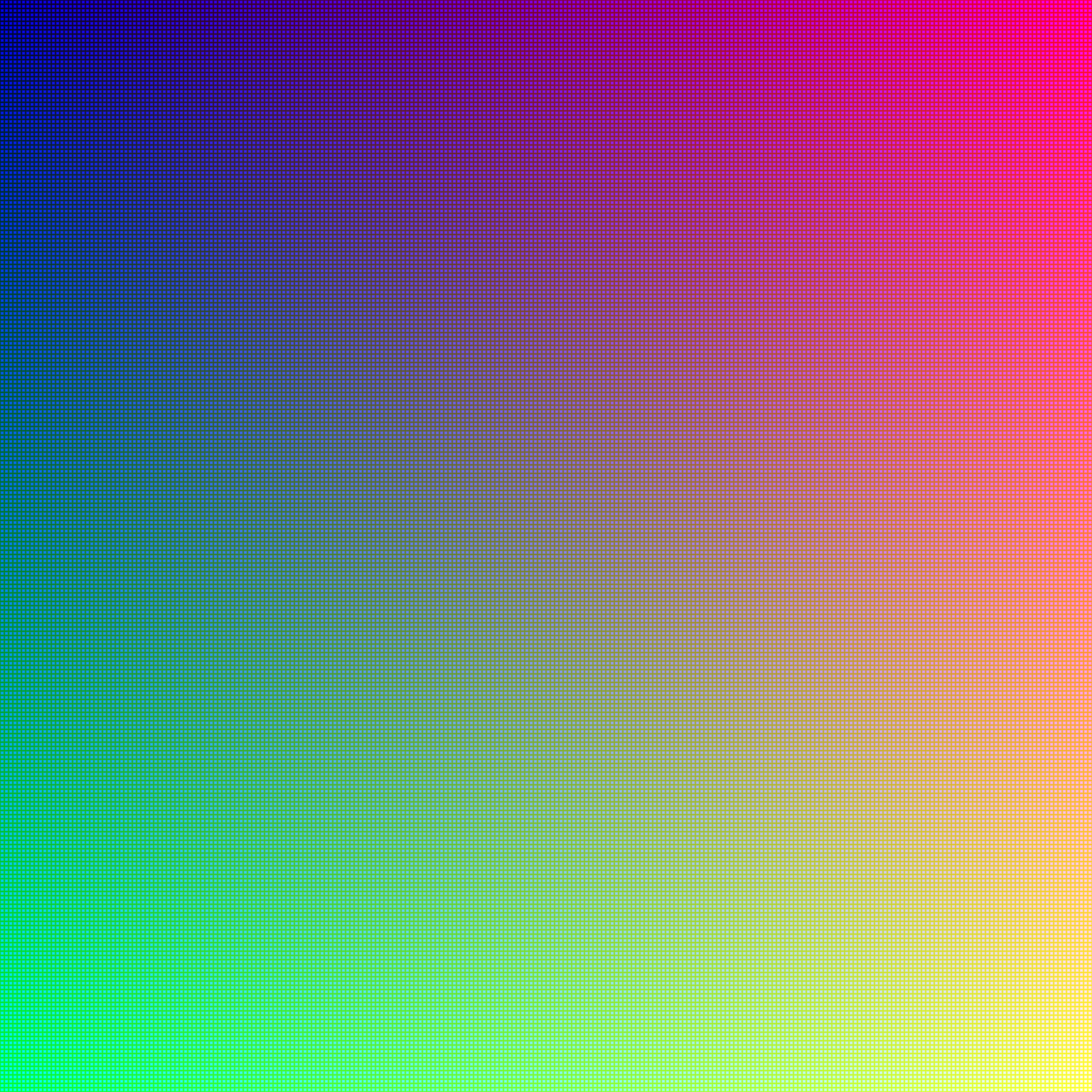 All 16,777,216 colors of 24-bit RGB palette (truecolor) in a 4096 × 4096 bitmap. This image was made by zooming Image:Redgreen.png to 4096 × 4096 pixels then adding Image:Blue256.png on every 16 × 16 pixels block of fixed red-green value.